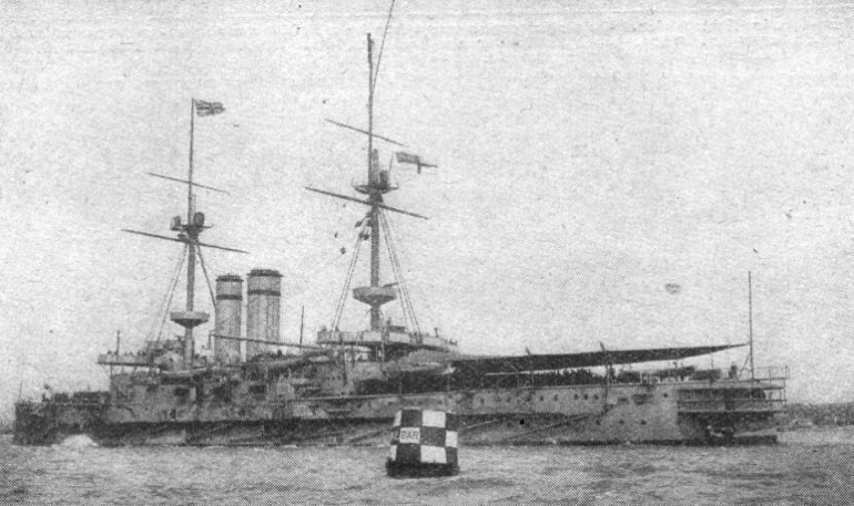 British battleship HMS Goliath, launched in 1898. Caption reads: H.M.S. Goliath, that was torpedoed on the night of May 12, just inside the Dardanelles Straits, while protecting the French flank. She sank with the loss of five hundred men. The Goliath was an old British 13,000 ton battleship, laid down in 1897 and completed in 1900.